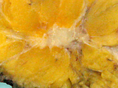 Macroscopic (gross) appearance of invasive ductal carcinoma, the most common form of breast cancer. The tumor is the pale, crab-shaped mass at the center, surrounded by normal, yellow fatty tissue.